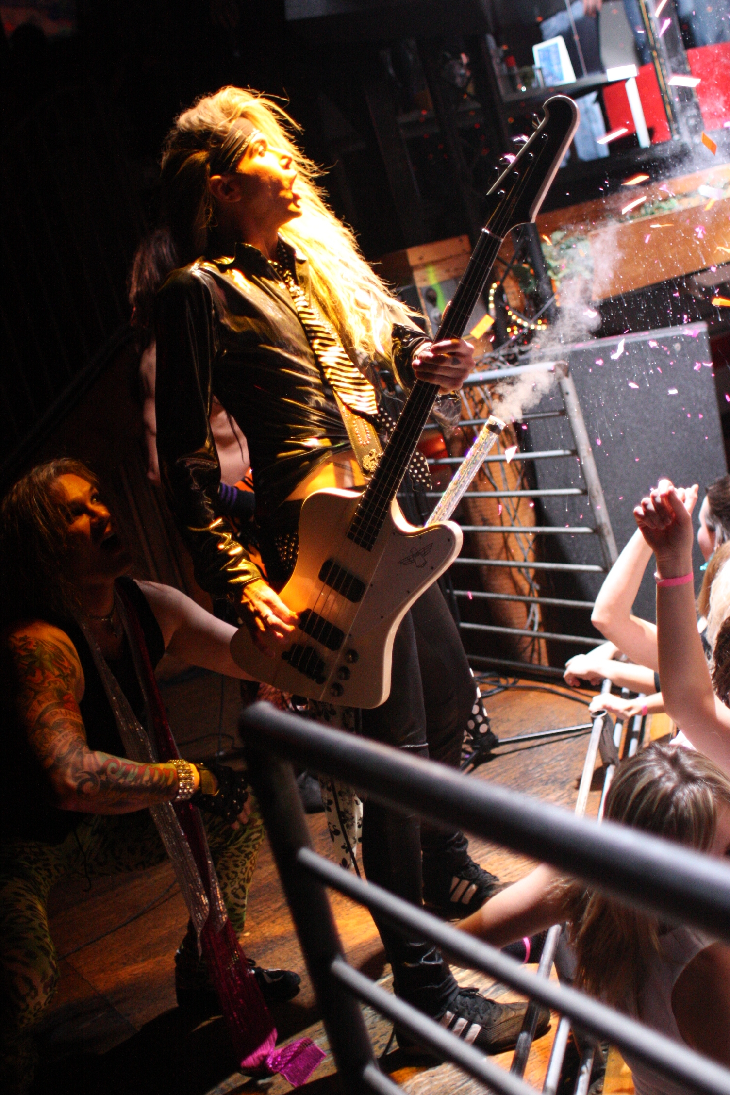 Ralph Saenz and Travis Haley performing with Steel Panther in San Diego on February 18, 2009.